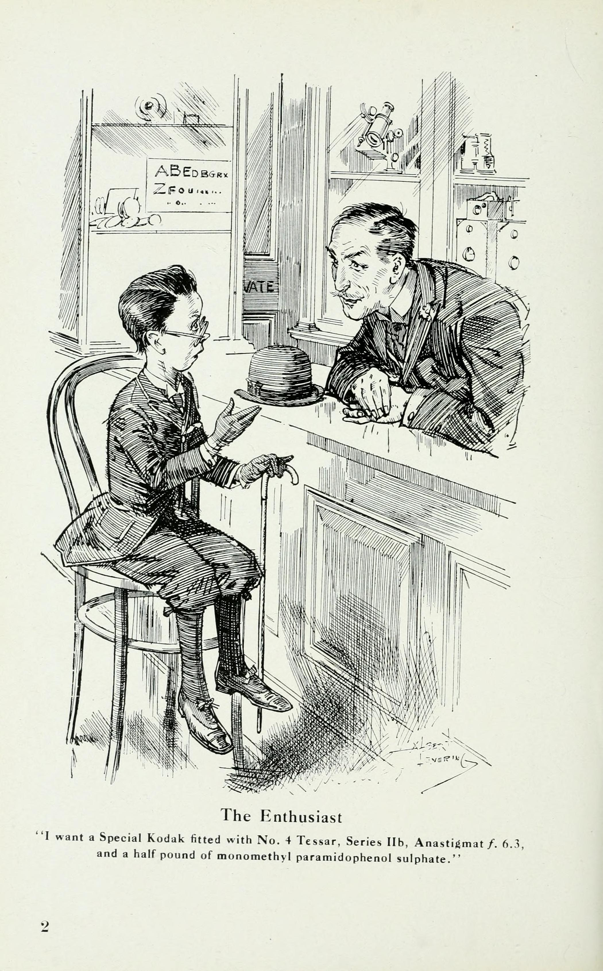 Title: The Kodak Salesman Year: 1917 (1910s) Authors: Canadian Kodak Co. Ltd. Subjects: Publisher: Canadian Kodak Co. Ltd. Text Appearing Before Image: To give the face a good colore saysan exchange, get a pot of rouge anda rabbits foot. Bury them two milesfrom home and walk out and backonce a day to see if they are still there ♦•Pep Vigor. \itality. \im, and Punch—With courage to act on a sudden Hunch—The nerve to tackle the hardest thing.With feet that climb, and hands that cling,And a heart that never forgets to sing—Thats Pep. Sand and grit in a concrtte base—A friendlv smile on an honest face—The spirit that helps when anothers down.That knows how to scatter the blackest frown.That loves its neighbor, and loves its town—Thats Pep. To sav I Will—For you know you can—To look for the best in every man—To meet each thundering knock-out blow.And come back with a laugh, because you knowYoull get the best of the whole blame show—Thats Pep. —The Grid. Text Appearing After Image: The Enthusiast I want a Special Kodak fitted with No. 4 Tessar, Series lib, Anasti^mat/. 6.3,and a half pound of monomethyl paramidophenol sulphate. KODAKSALESMAN an aia to the man oenina tne ccmnteT Vol. 6 AUGUST. 1920 No. Just Between Us This is nut intended for theBoss.- What follows is a conspiracy, aholdup, a deep laid plot, wherebyyou are to make so much money forhim that he will joyfull\- come ac—but shush. He mustnt know—not )et. Theres a lot more to this busi-ness of selling photographic goodsthan ringing up a quarter for thesale of \. P. film. It would be notrick whatever to build a vendingmachine to do that. lUit the ma-chine cannot answer questionsabout lenses and portrait attach-ments and papers. You can. To make good, however, youvegot to know. And the way to knowis to read, and the books to readare at )Our command. As long as we are in a conspiracyagainst your Boss, let us, first ofall, suggest that in fairness to him.you go about it systematically andpursue your kn